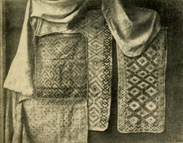 A sample of cloth found in the Kuba culture